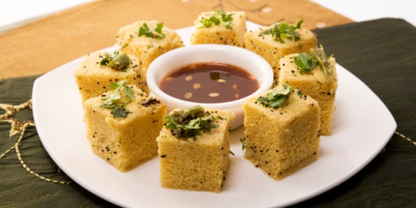 Step 1 Take gram flour in a bowl. Add yogurt and approximately one cup of warm water and mix. Avoid lumps. Add salt and mix again. Step 2 Leave it aside to ferment for three to four hours. When gram flour mixture has fermented, add turmeric powder and green chilli-ginger paste. Mix Heat the steamer. Grease a thali. Step 3 In a small bowl take lemon juice, soda bicarbonate, one teaspoon of oil and mix. Add it to the batter and whisk briskly. Pour batter into the greased thali and place it in the steamer. Step 4 Cover with the lid and steam for ten minutes. When a little cool, cut into squares and keep in a serving bowl/plate. Step 5 Heat remaining oil in a small pan. Add mustard seeds. When the seeds begin to crackle, remove and pour over the dhoklas. Step 6 Serve, garnished with chopped coriander leaves and scraped coconut.